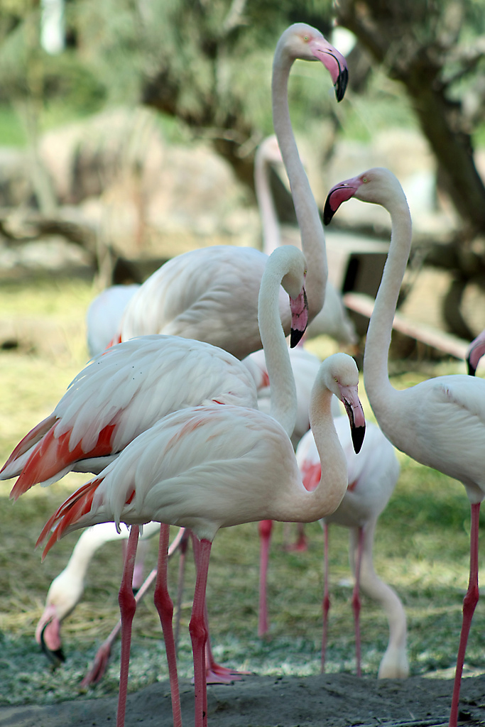 Birds in Al-Areen Wildlife Park